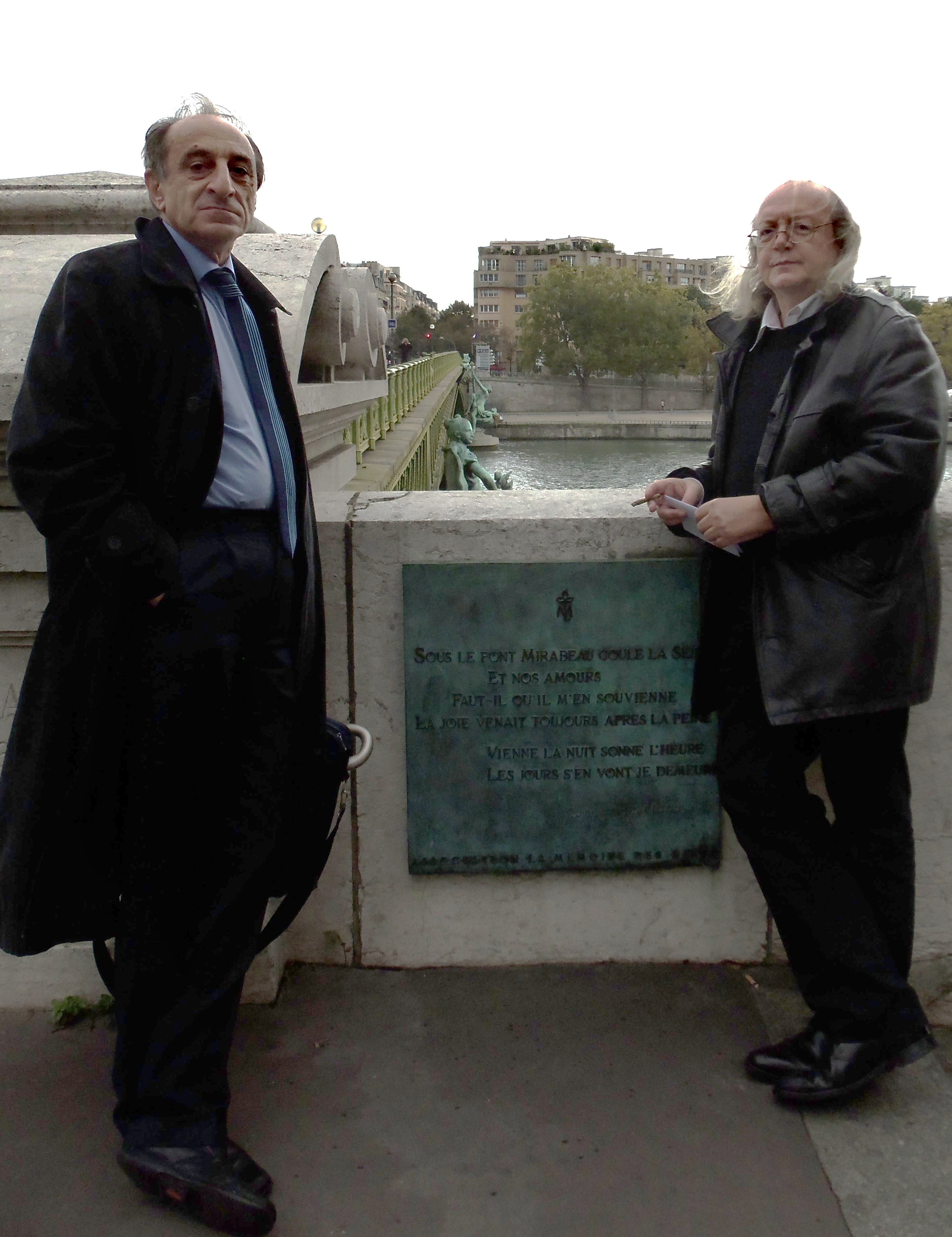 David Mouradian and Serge Venturini, Paris, October 2012.